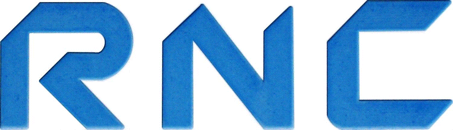 Logo of Nishinippon Broadcasting Company, Limited